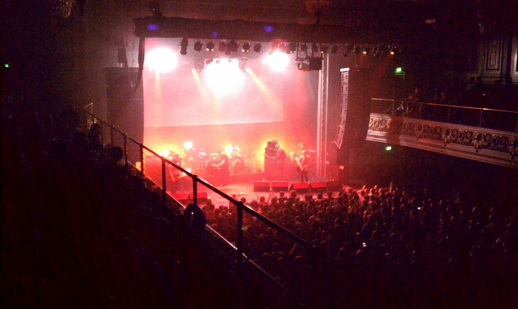 Mogwai at The Regency Ballroom in San Francisco.